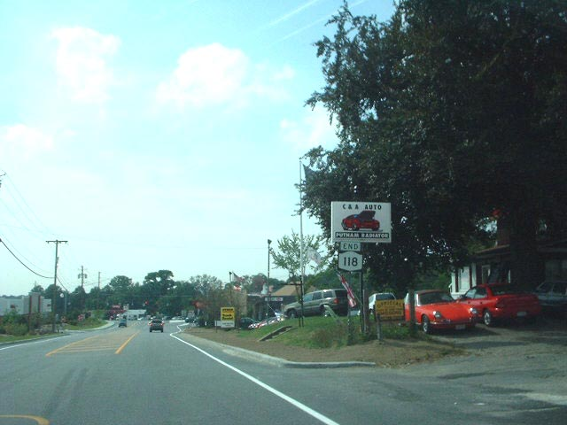 Signage for the northern terminus of New York State Route 118 at U.S. Route 6 in Carmel.